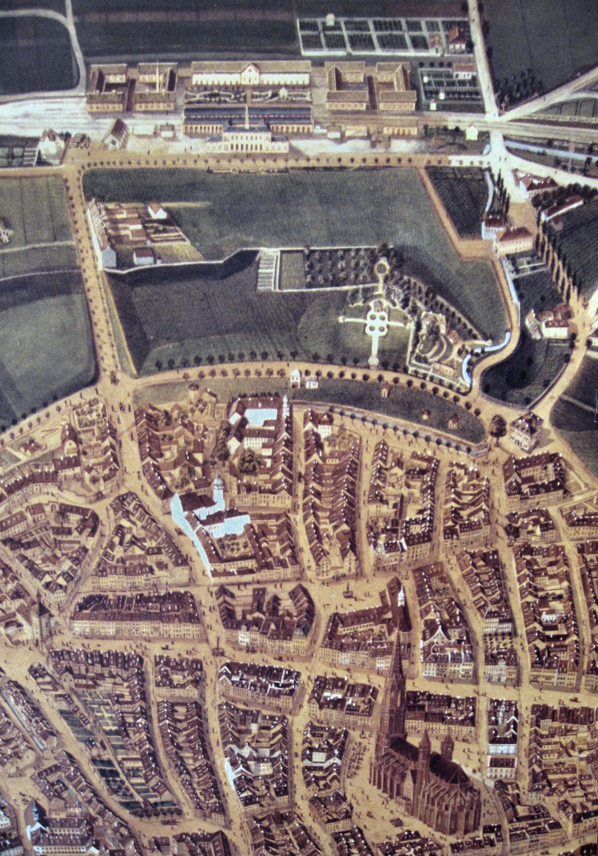 Part of the Freiburg plan showing the new railway station